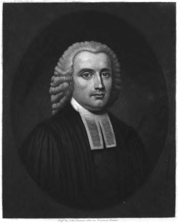 Israel Acrelius. Engraved by John Sartain after an original picture.